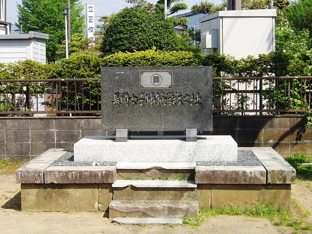 Memorial of Niigata Prefectural Nagaoka Girls' Normal School, one of the origins of Niigata University, located in Nagaoka, Niigata, Japan.